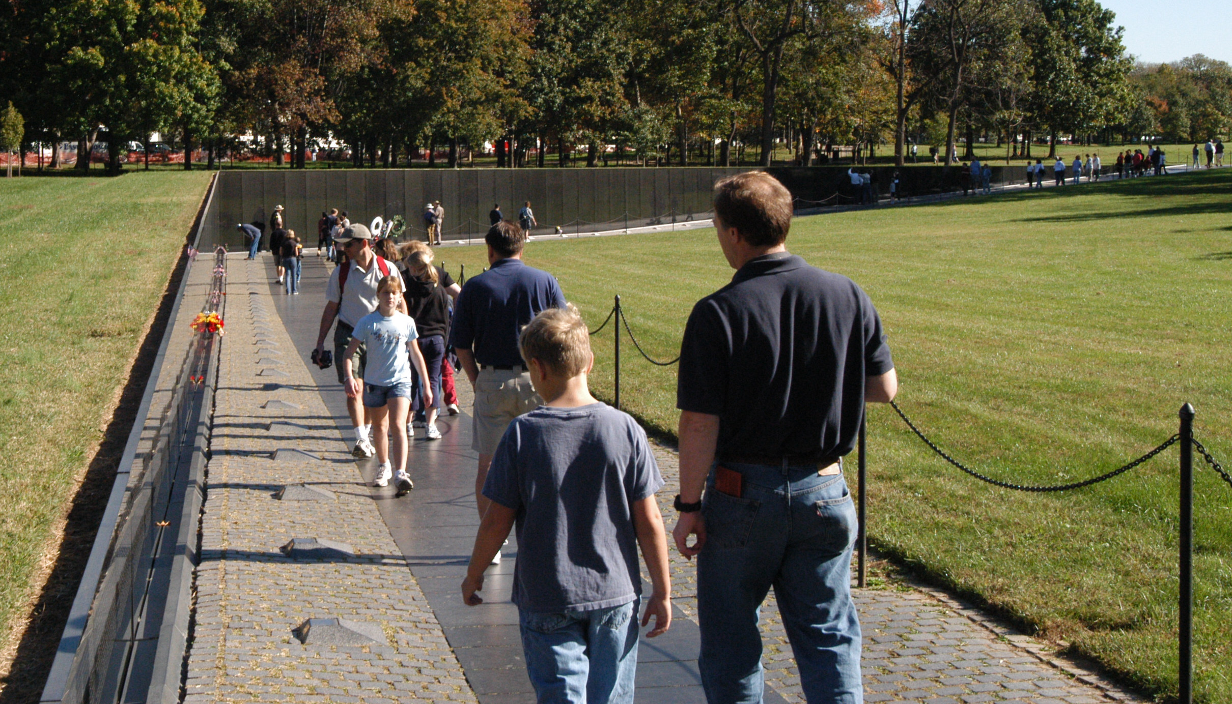 Vietnam memorial, Washington, D.C.